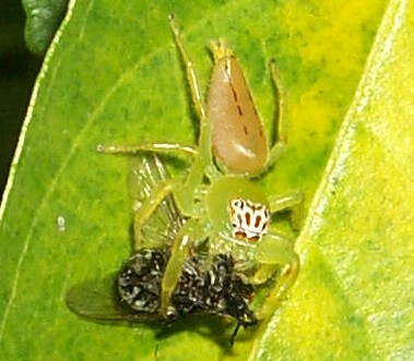 female Mopsus mormon feeding on a fly, North Queensland.